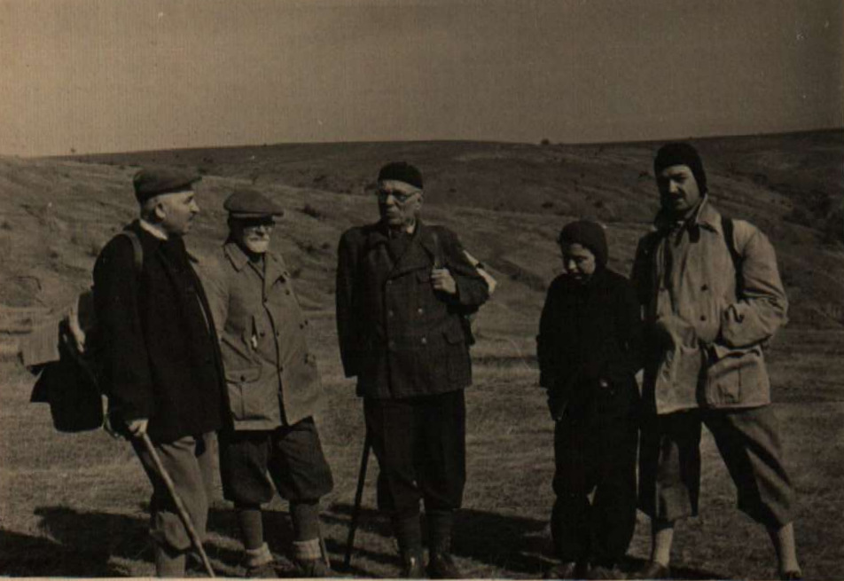 Photos of Pavel Deliradev of its tourist trips in Bulgaria.